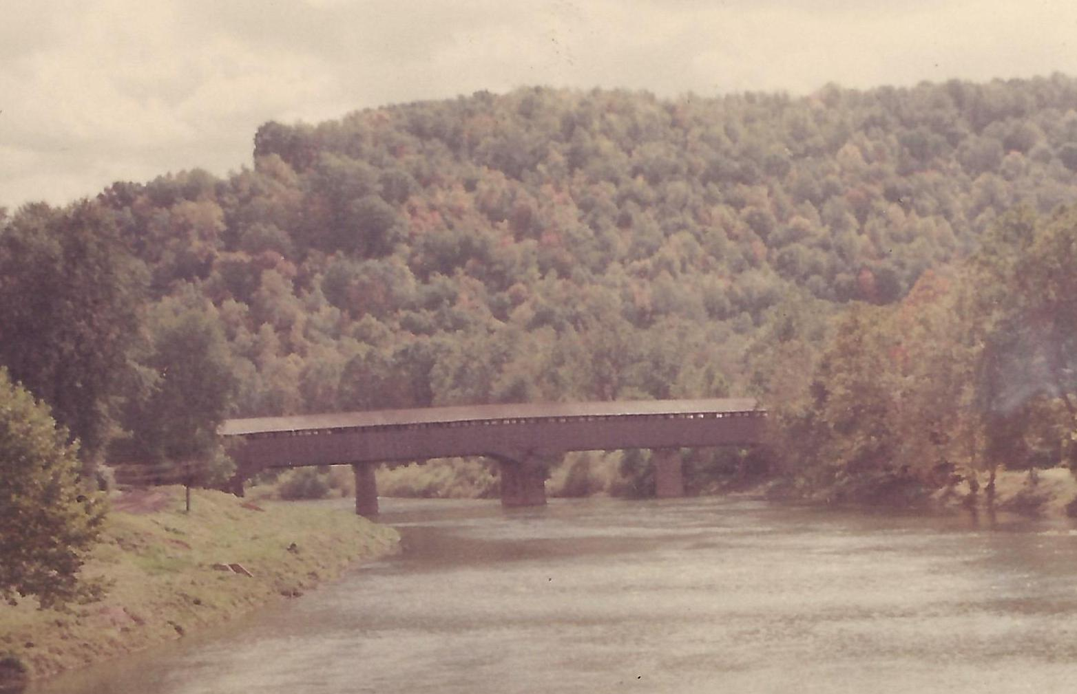 The Philippi Covered Bridge (built 1852), photo circa 1970. The bridge spans the Tygart Valley River at Philippi, West Virginia, USA.